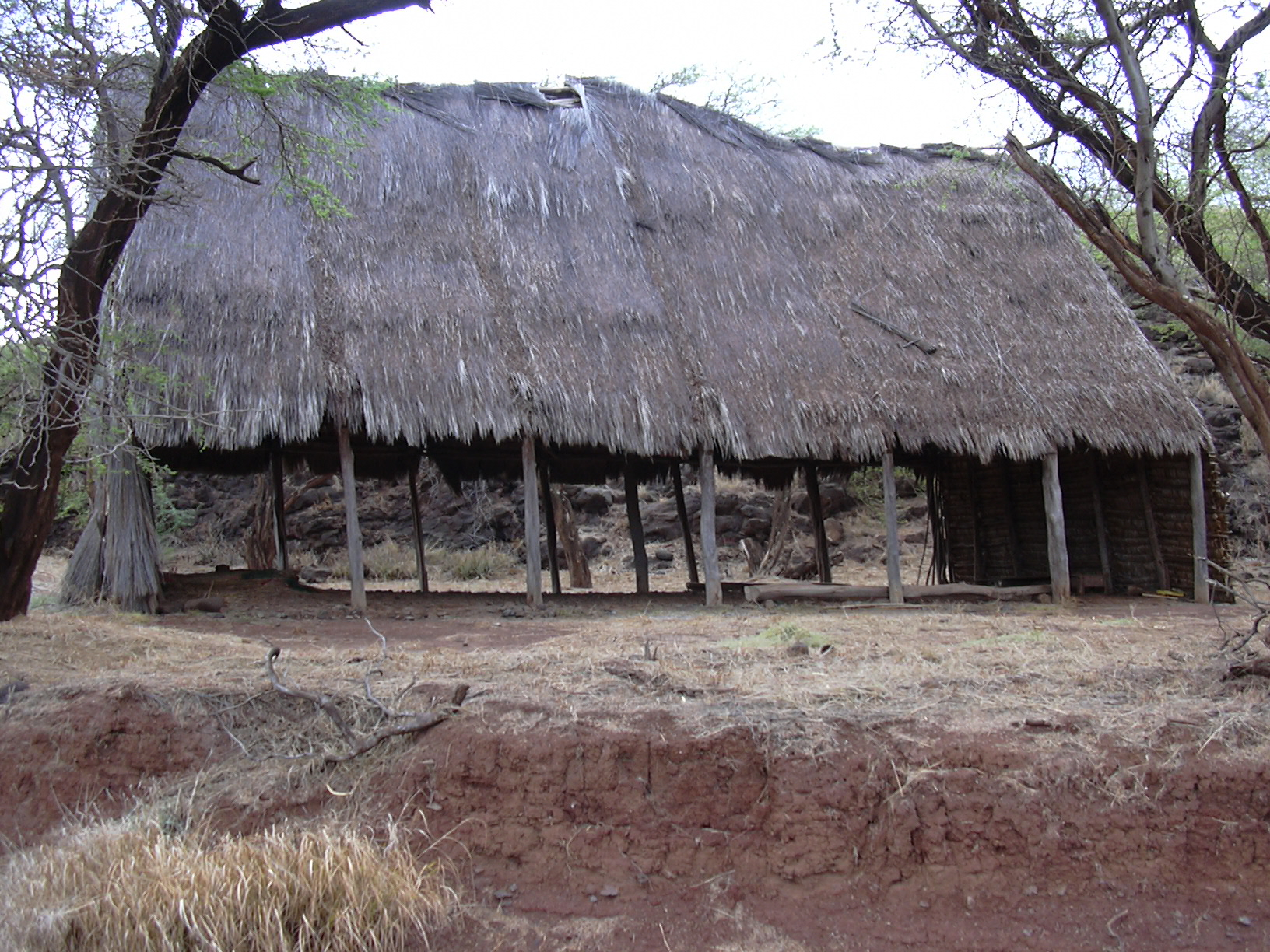 Heteropogon contortus (hale). Location: Kahoolawe, Hakioawa